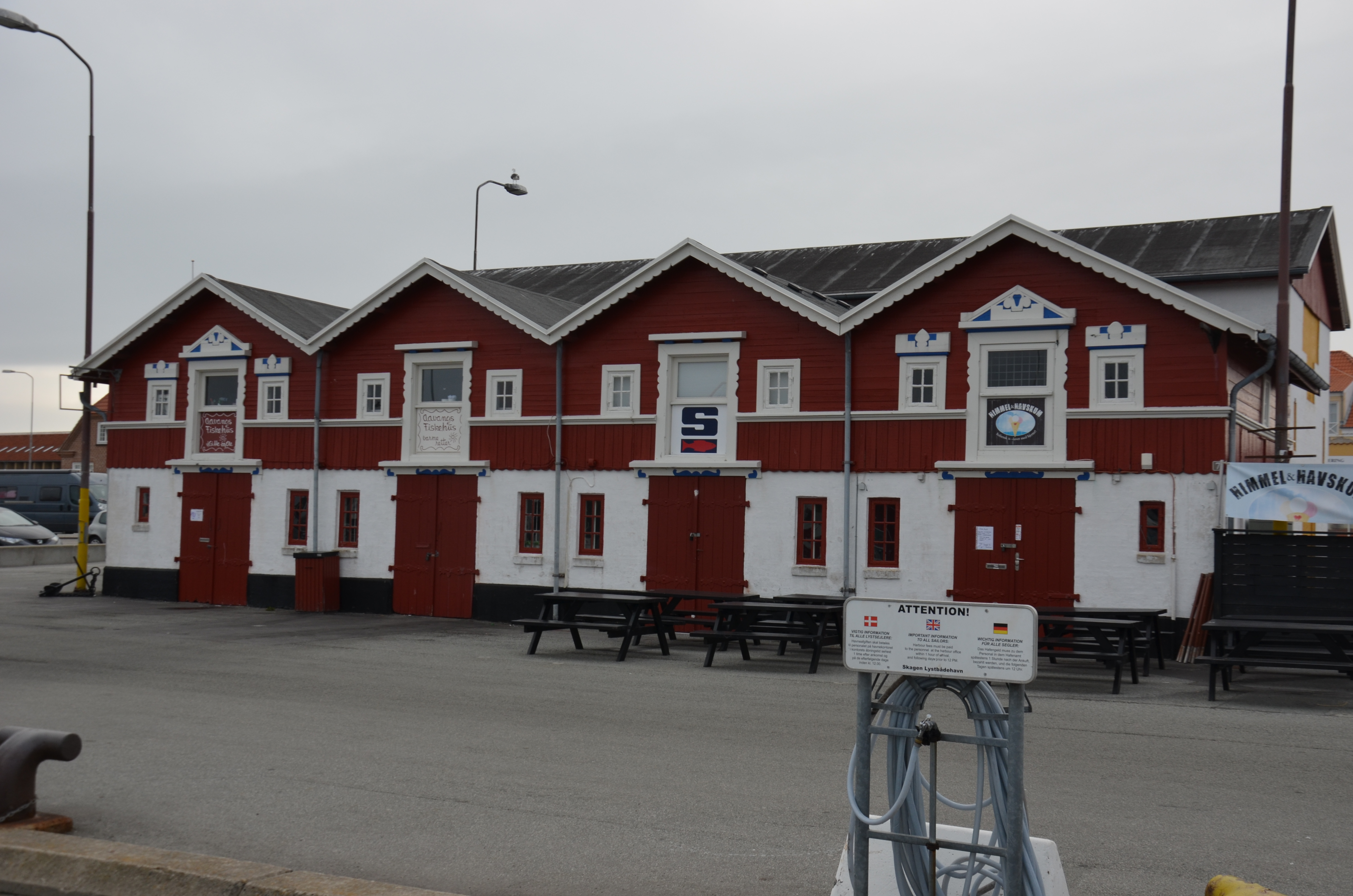 Fiskepakhuse Skagen, ritade av Thorvald Bindeböhl och uppförda 1905-07